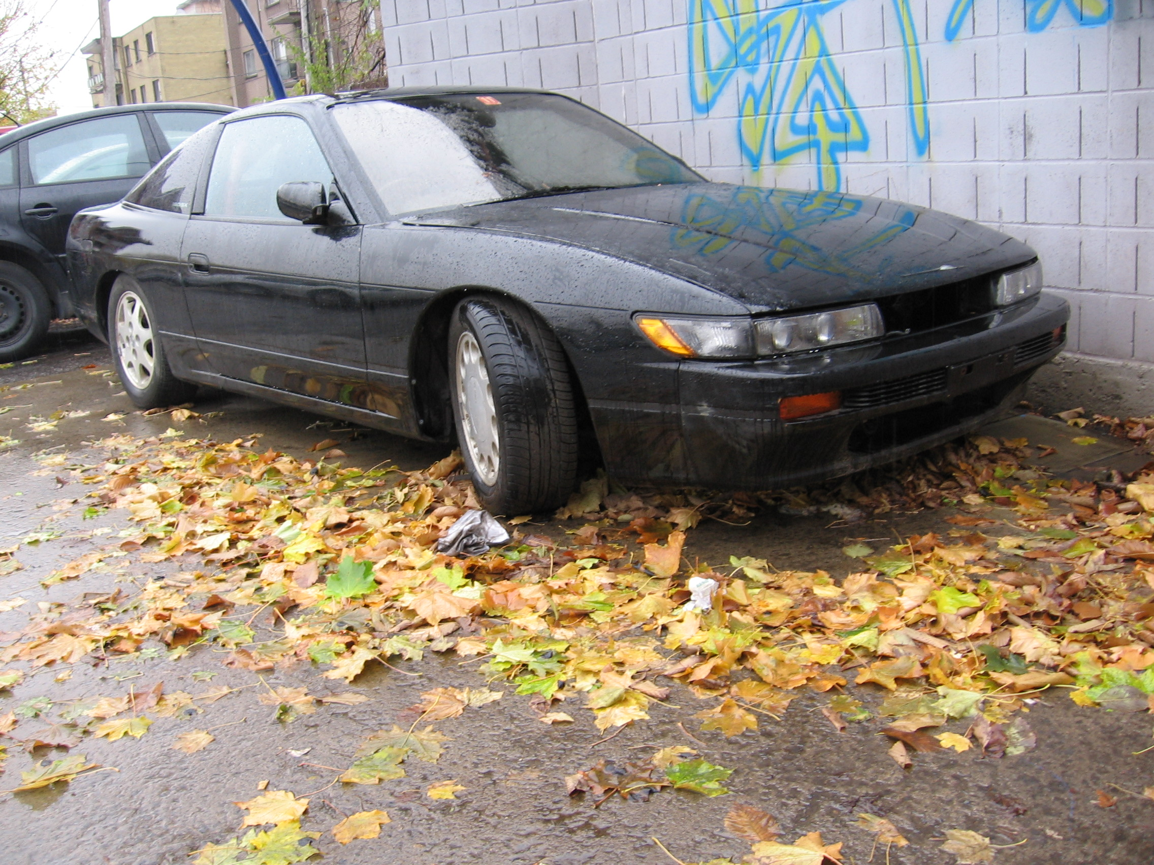 A 1990 Nissan 180SX with a Nissan Silvia front-end, used mainly for my user talk page since no pictures of such vehicle currently existed on wikipedia, with the exception of a video game screen shot and a drawing. Own work.